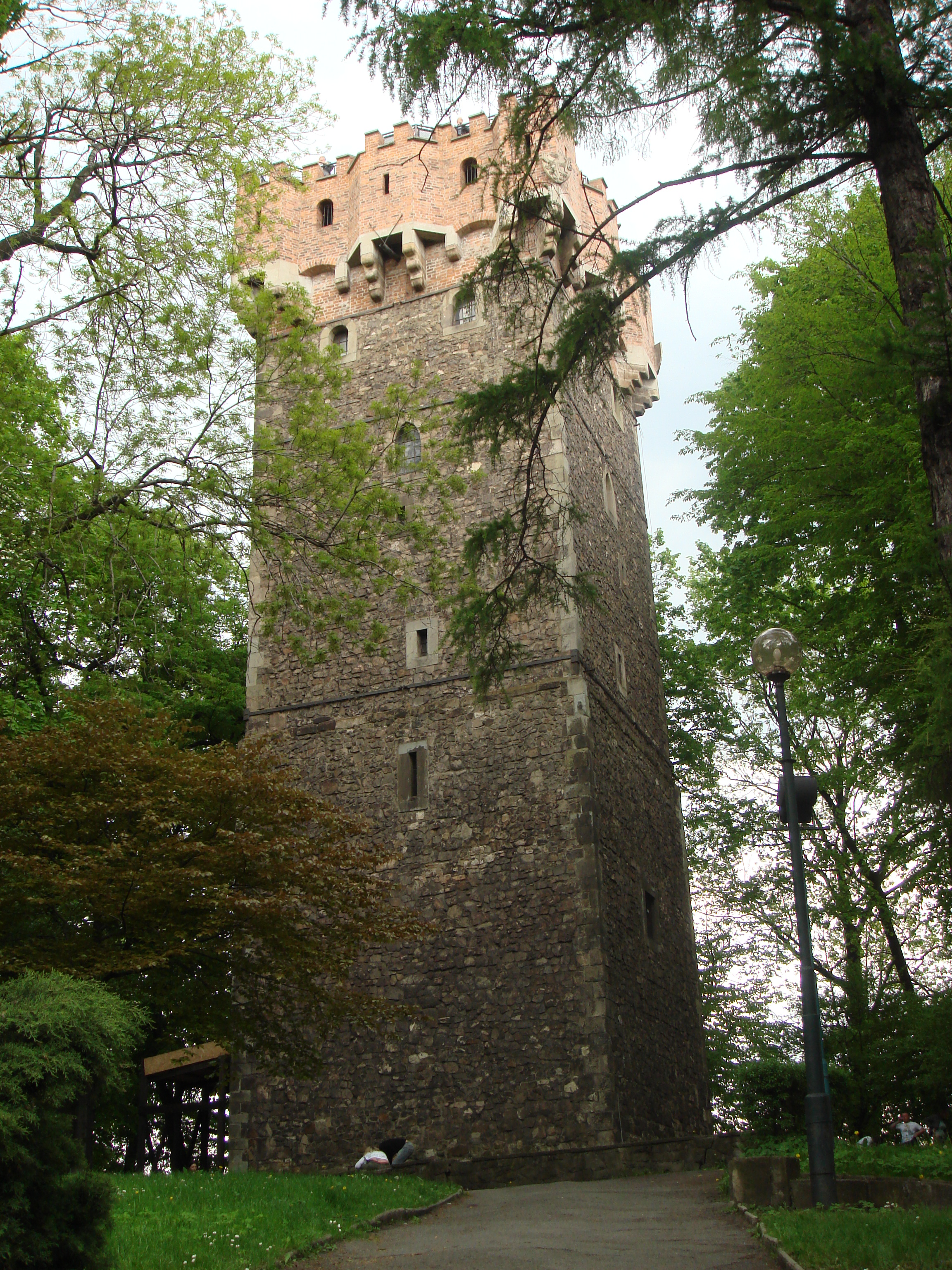 The Piast Tower in Cieszyn (Silesian Voivodeship, Poland).